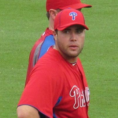 Darin Ruf during batting practice prior to a Phillies game on 2012 09 27